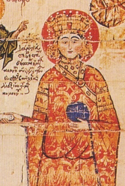 Theodora Kantakouzene, empress-consort of Alexios III of Trebizond. (File Formerly misidentified with Maria of Amnia)